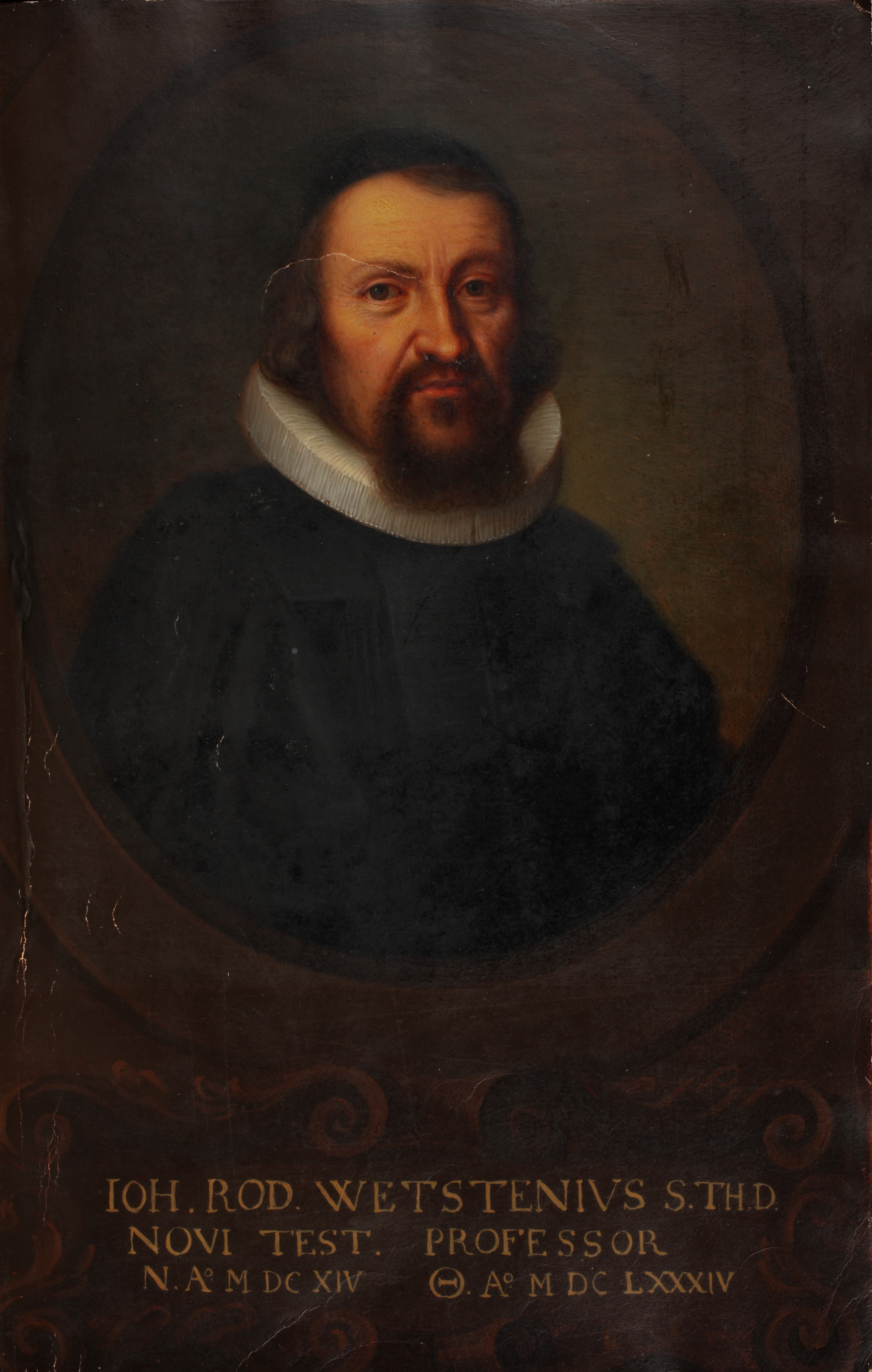 The Matriculation Register of the Basel Rectorate, recorded in manuscript form from 1460 to 2000, contains annual information notices added by each successive rector as well as lists of enrolled students. The rich book decoration in the first three volumes is particularly notable. The work of 3 centuries, it is easily datable due to the chronogical order in which it was added and thus provides a welcome demonstration of the art of miniature painting in Basel.